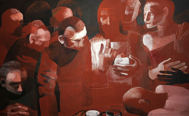 Religious painting by the Spanish artist Teresa Peña